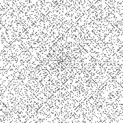 200×200 Ulam spiral. Best displayed at 200px or 400px so each integer is represented by exactly 1 or 2×2 pixels.